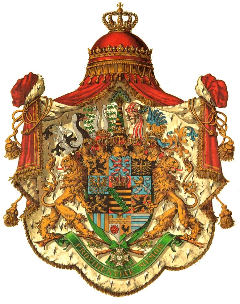 The great coat of arms of the Kingdom of Saxony in the German Empire